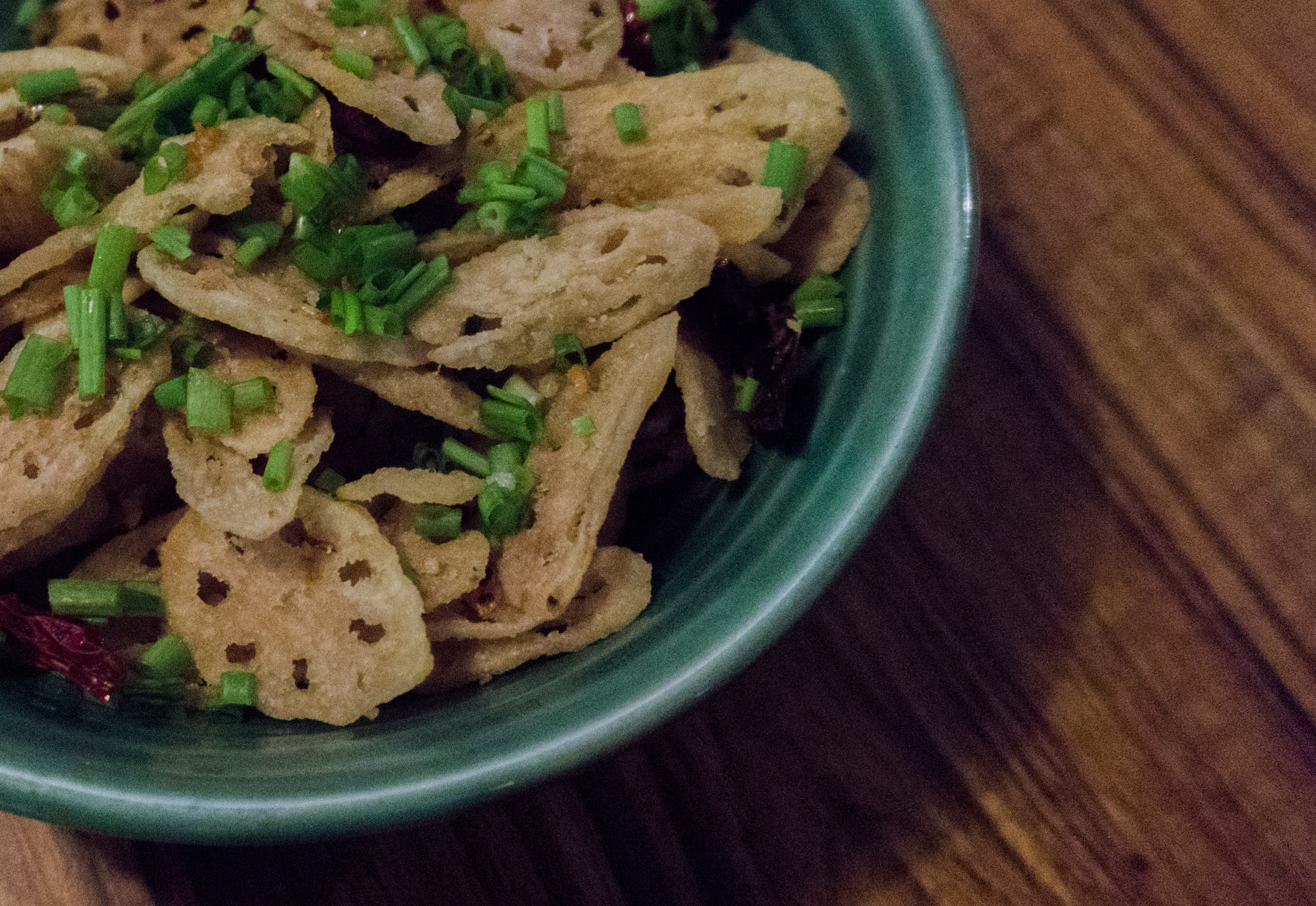 Crispy lotus stem tossed in burnt garlic and dried chilli